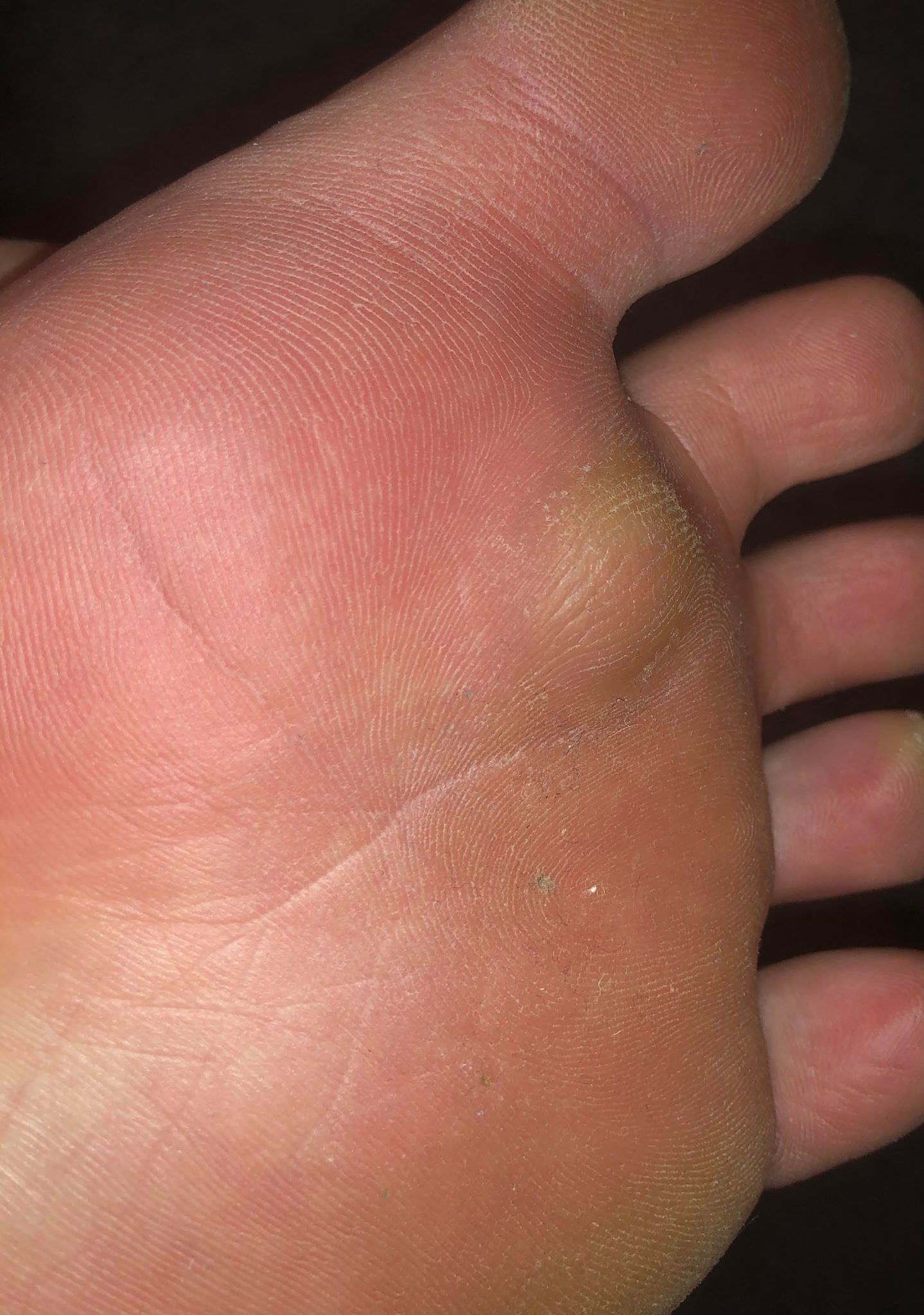 An image of a plantar fibroma.